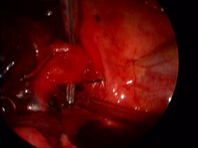 Image generated by Ddearmond from a thoracoscope during an operation with patient consent. Released under the GFDL.